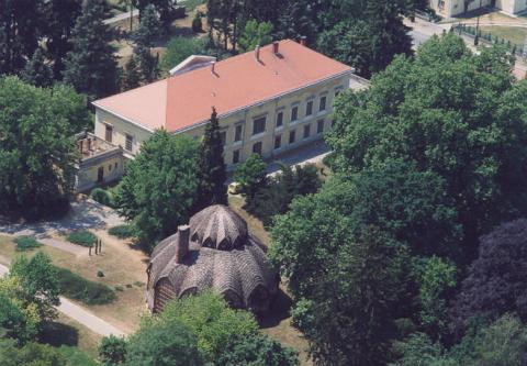 Letenye, Hungary, aerialphotography